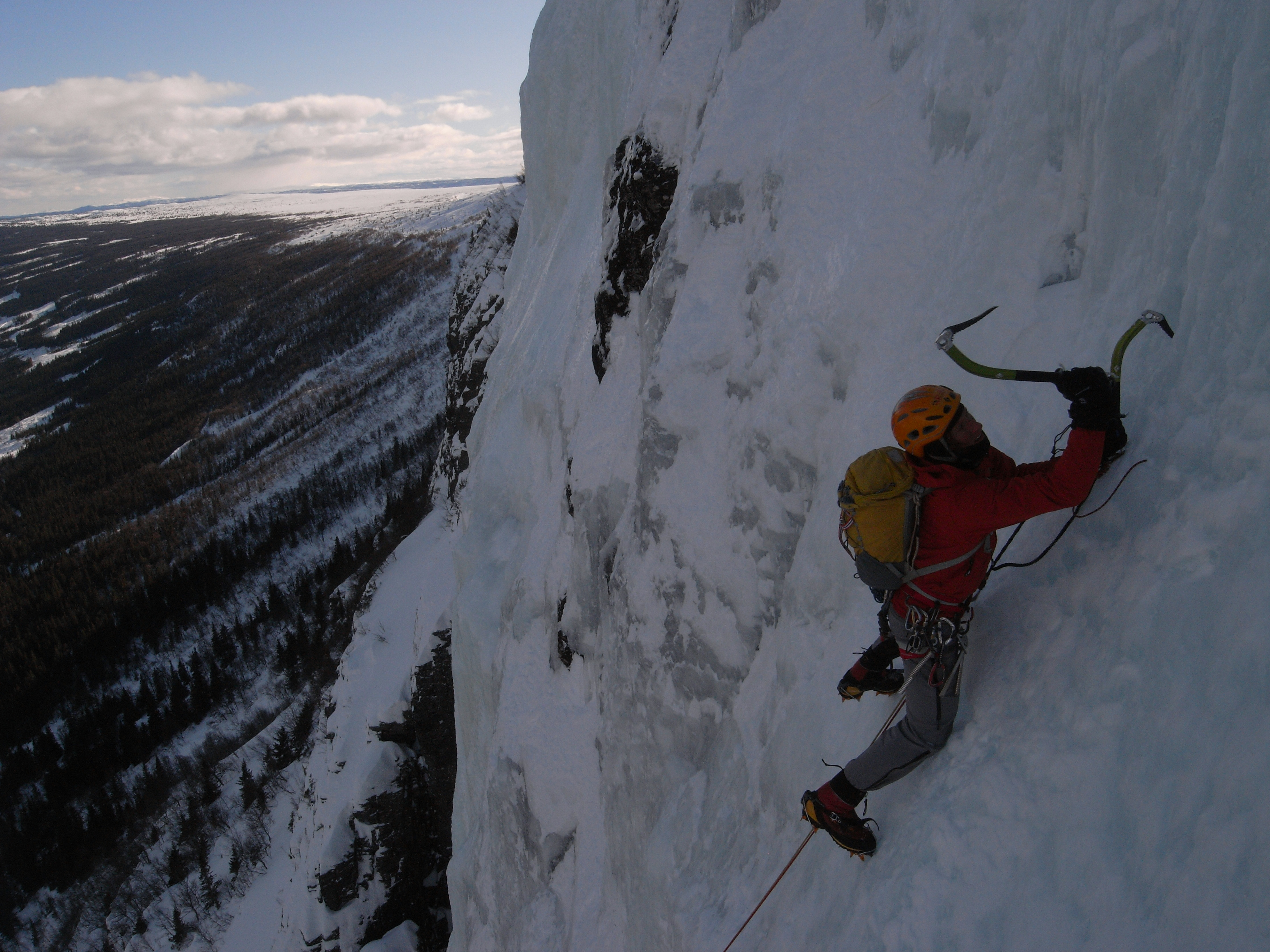 Ice climber on Hydnefossen, Norway. Photo by: Kristoffer Szilas.